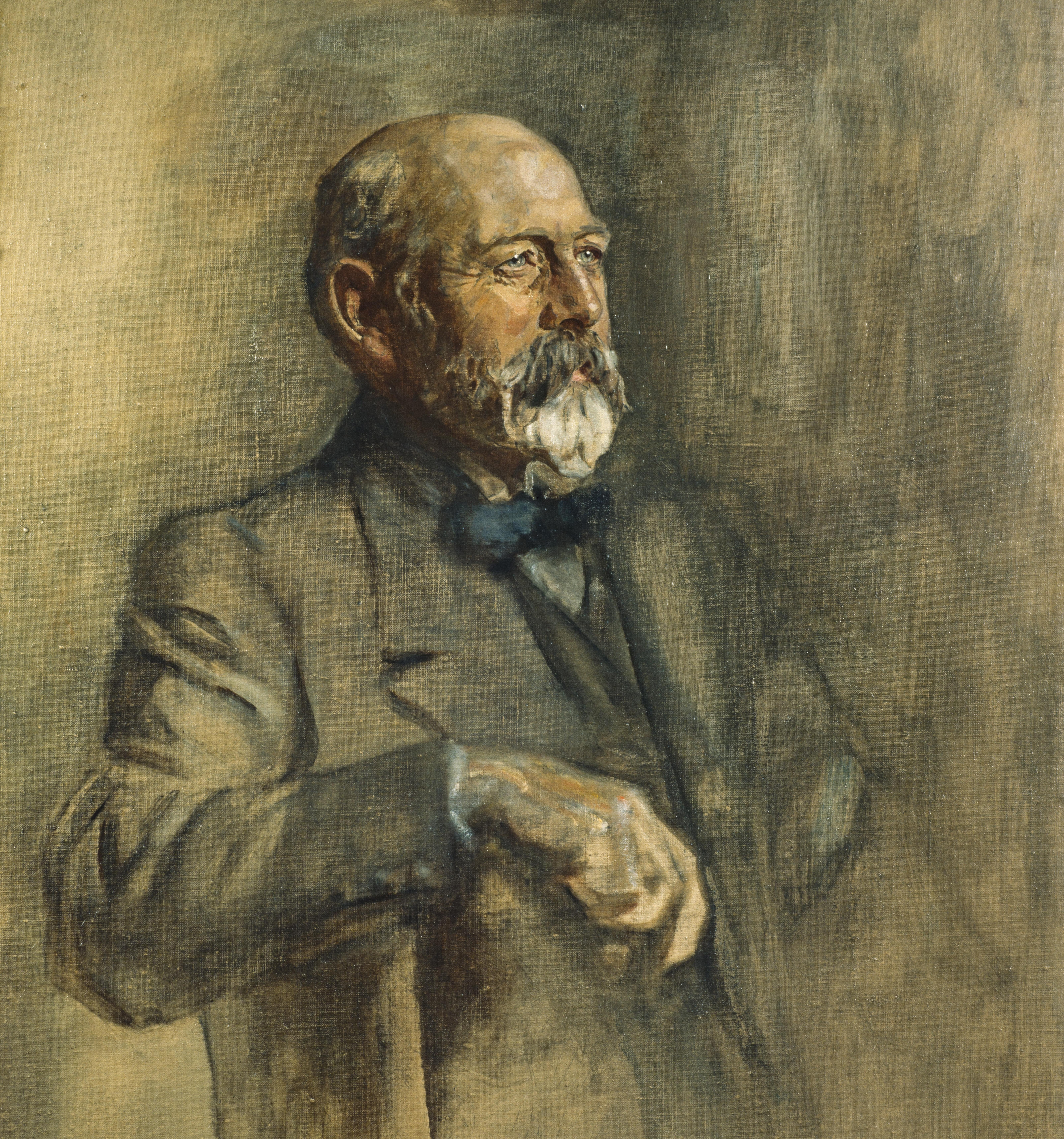 Sir Joseph Cook (1860–1947). Prime Minister of Australia. Study for portrait in Statesmen of the Great War.